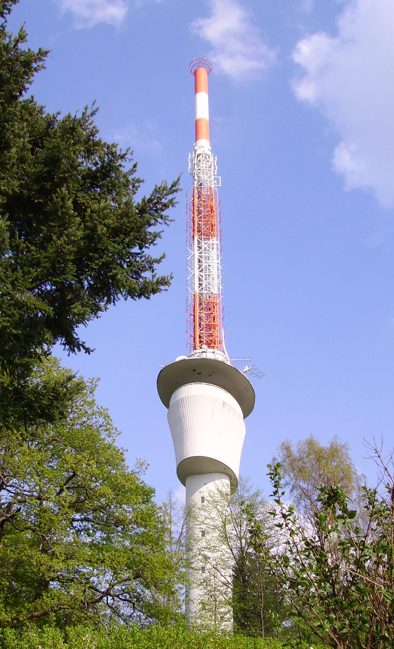 on top of Königstuhl (mountain) in Heidelberg, Germany